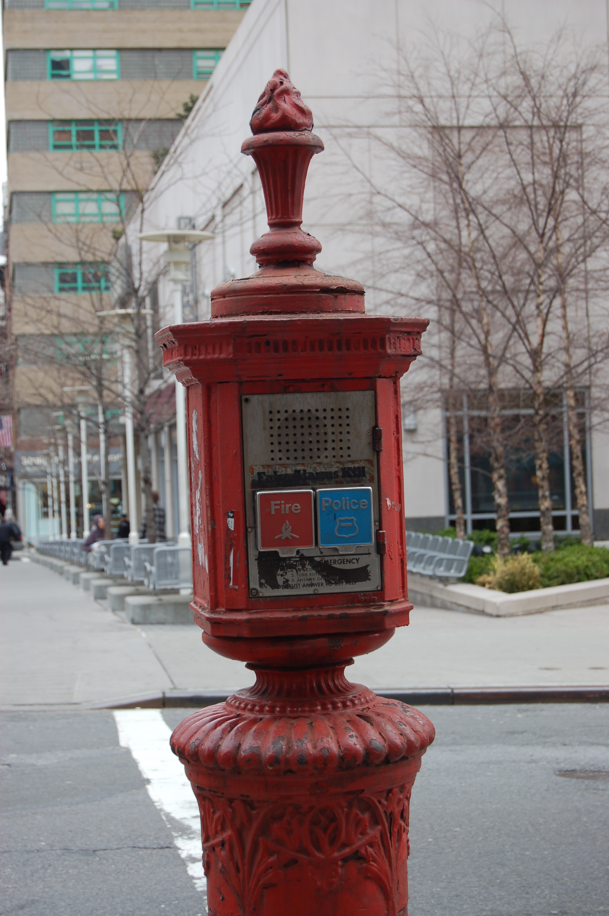 Emergency Telephone to call either Police or Fire Brigarde in New York